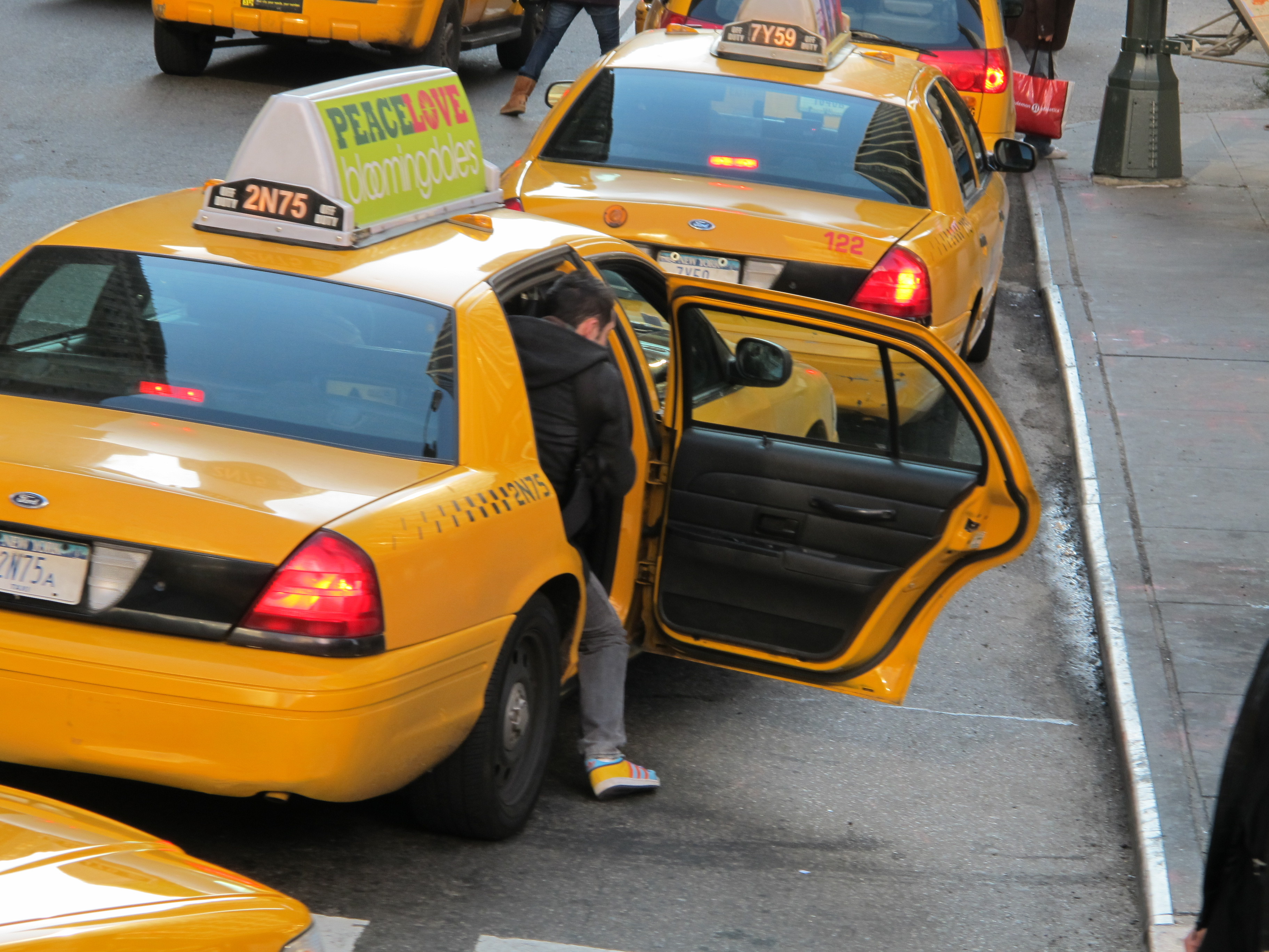 Getting out of a Taxi, Manhattan, New York City